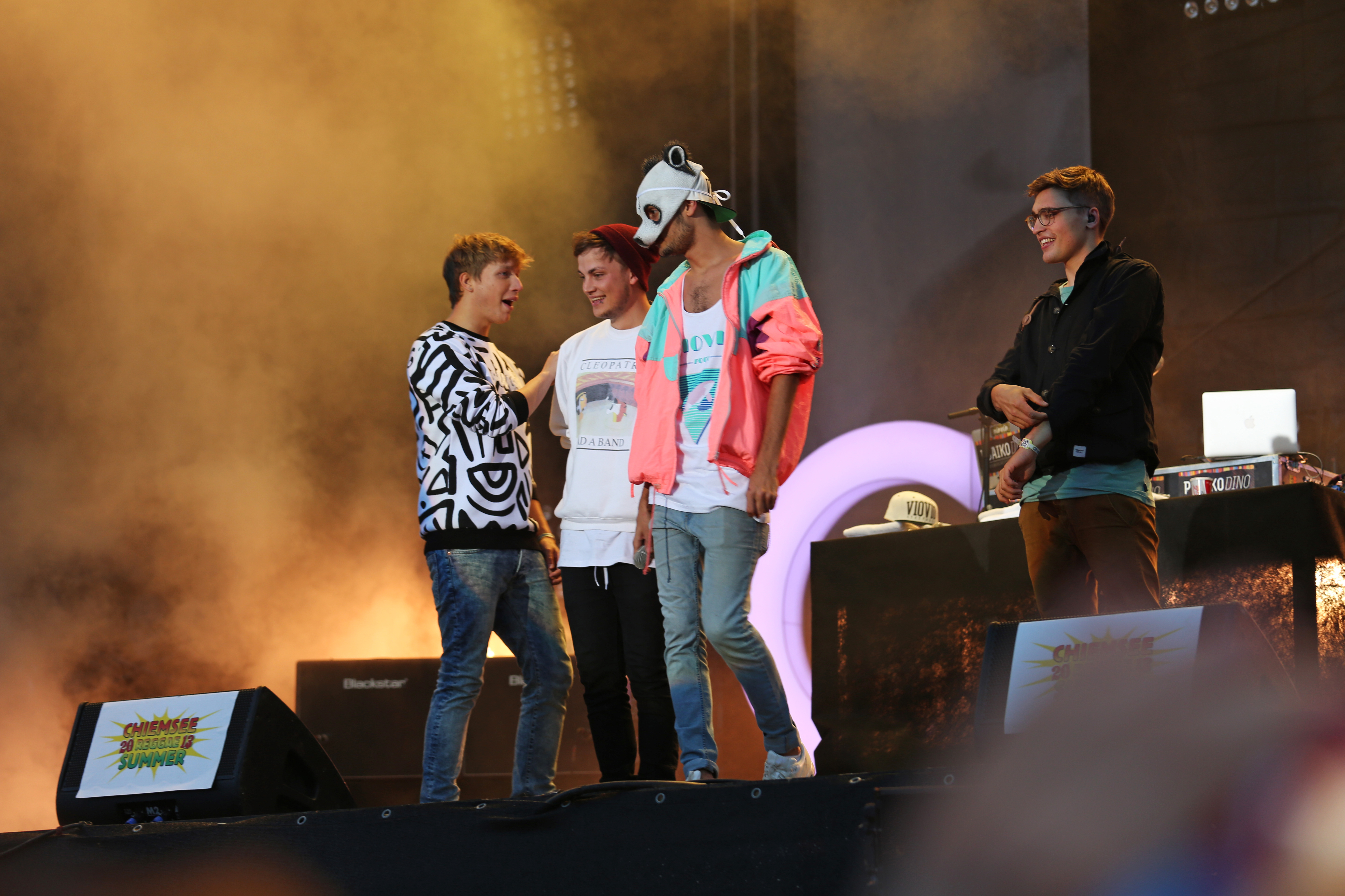 Cro auf dem Chiemsee Reggae Summer 2013 Festivalsommer This photo was created with the support of donations to Wikimedia Österreich and Wikimedia Deutschland in the context of the CPB project "Festival Summer".